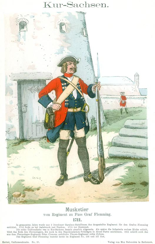 Kur-Sachsen. Musketier von Regiment zu Fuß Graf Flemming. 1711